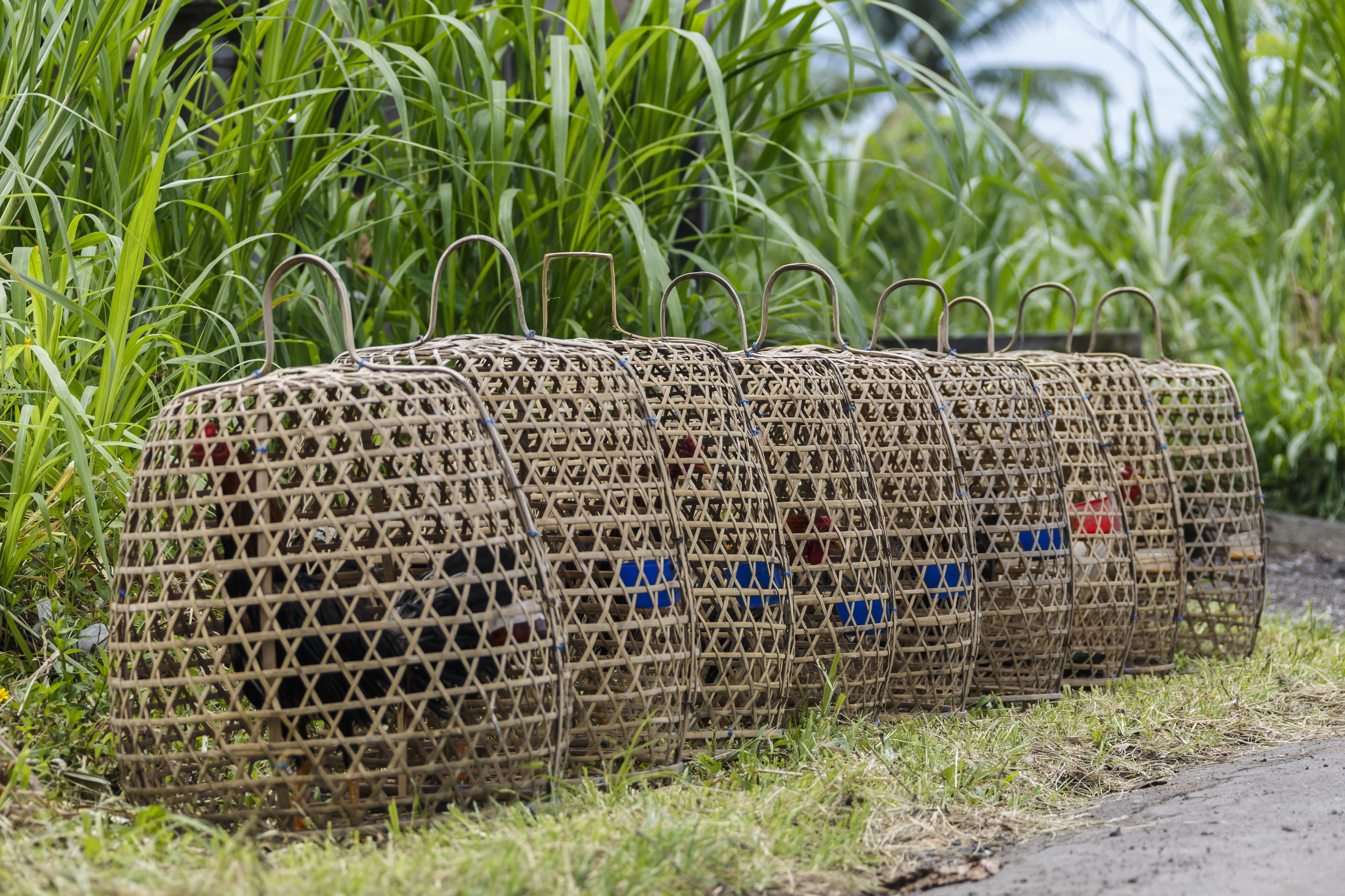 Besakih, Bali, Indonesia: Baskets with cockfight roasters along the road to Besakih.